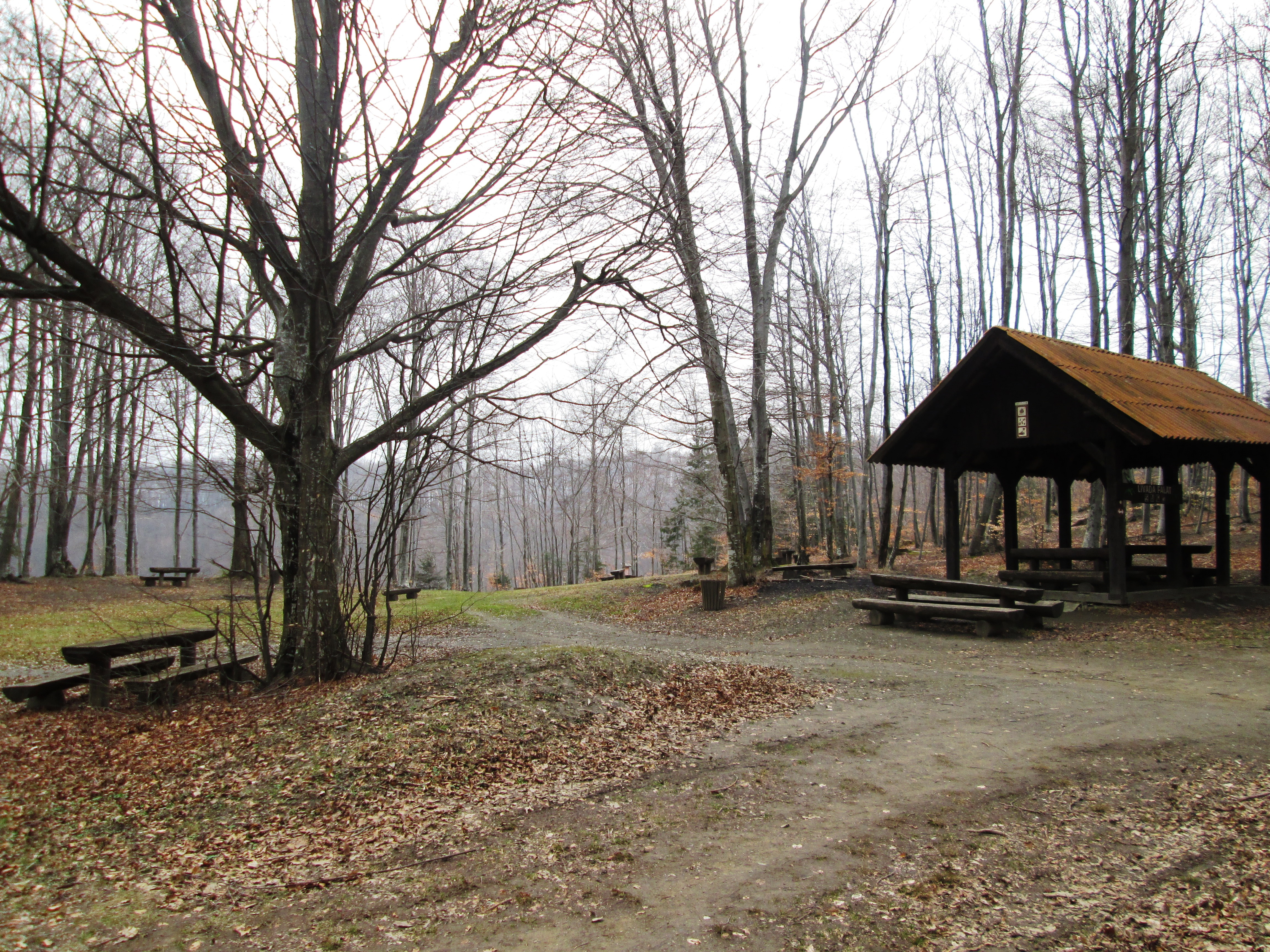 Meadow Falat in the Nature Park Medvednica in Croatia.